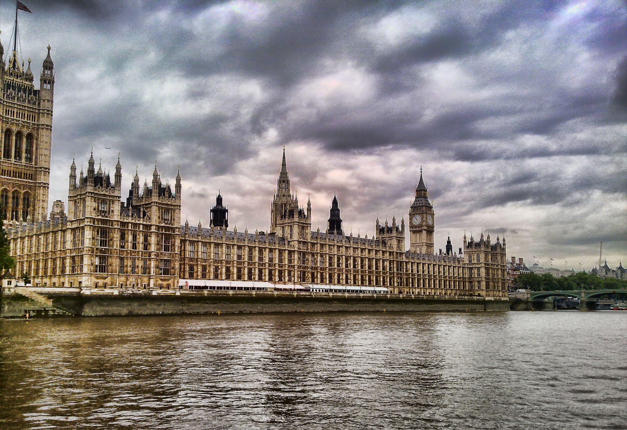 Big Ben HDR